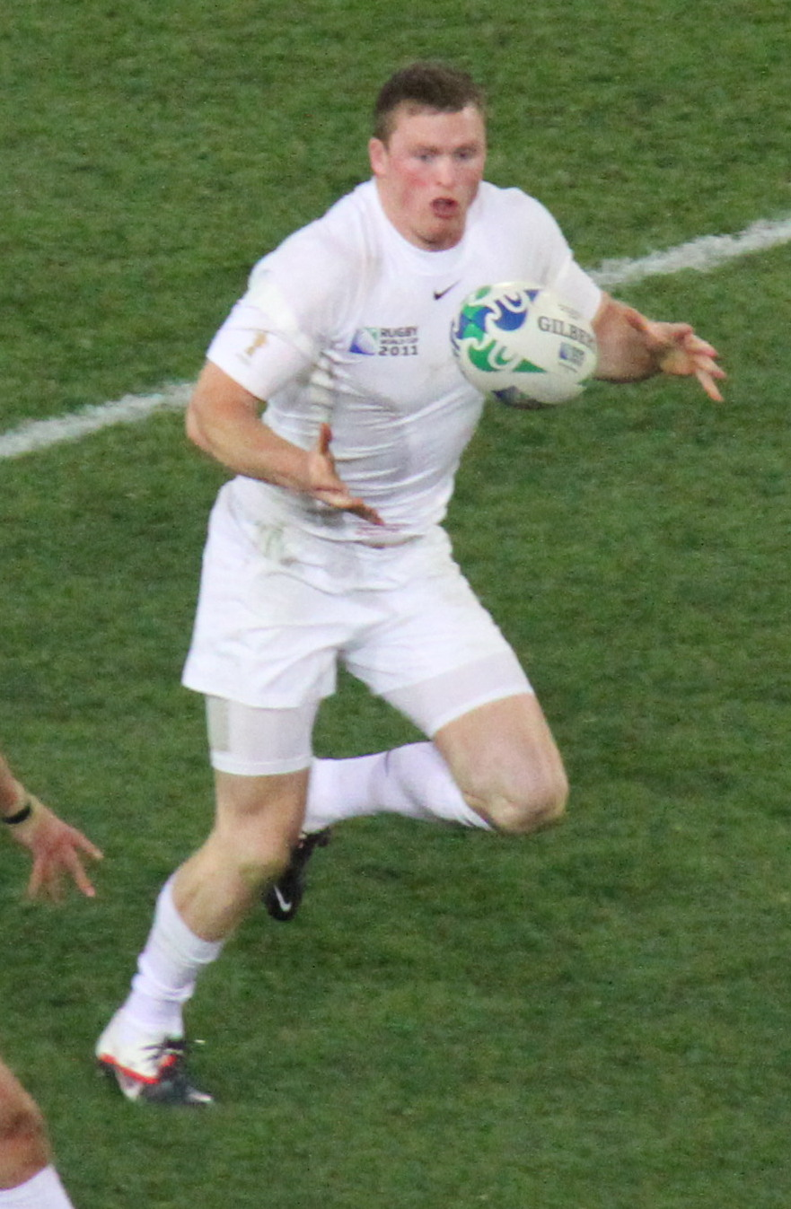 English rugby union player Chris Ashton during 2011 Rugby World Cup match against Georgia.